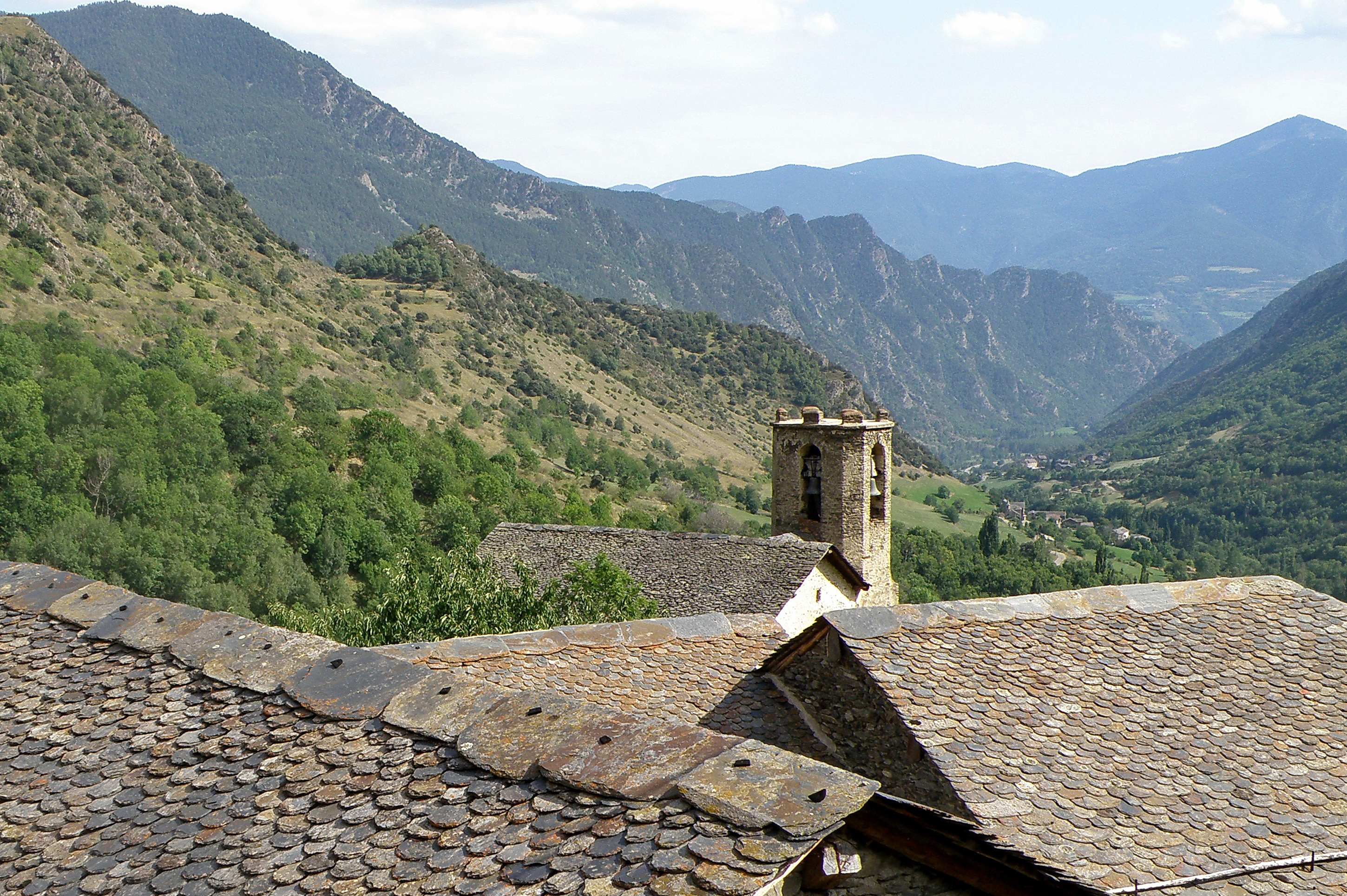 Belltower of St. Jaume church in Estaon of the Pallars Sobirà district